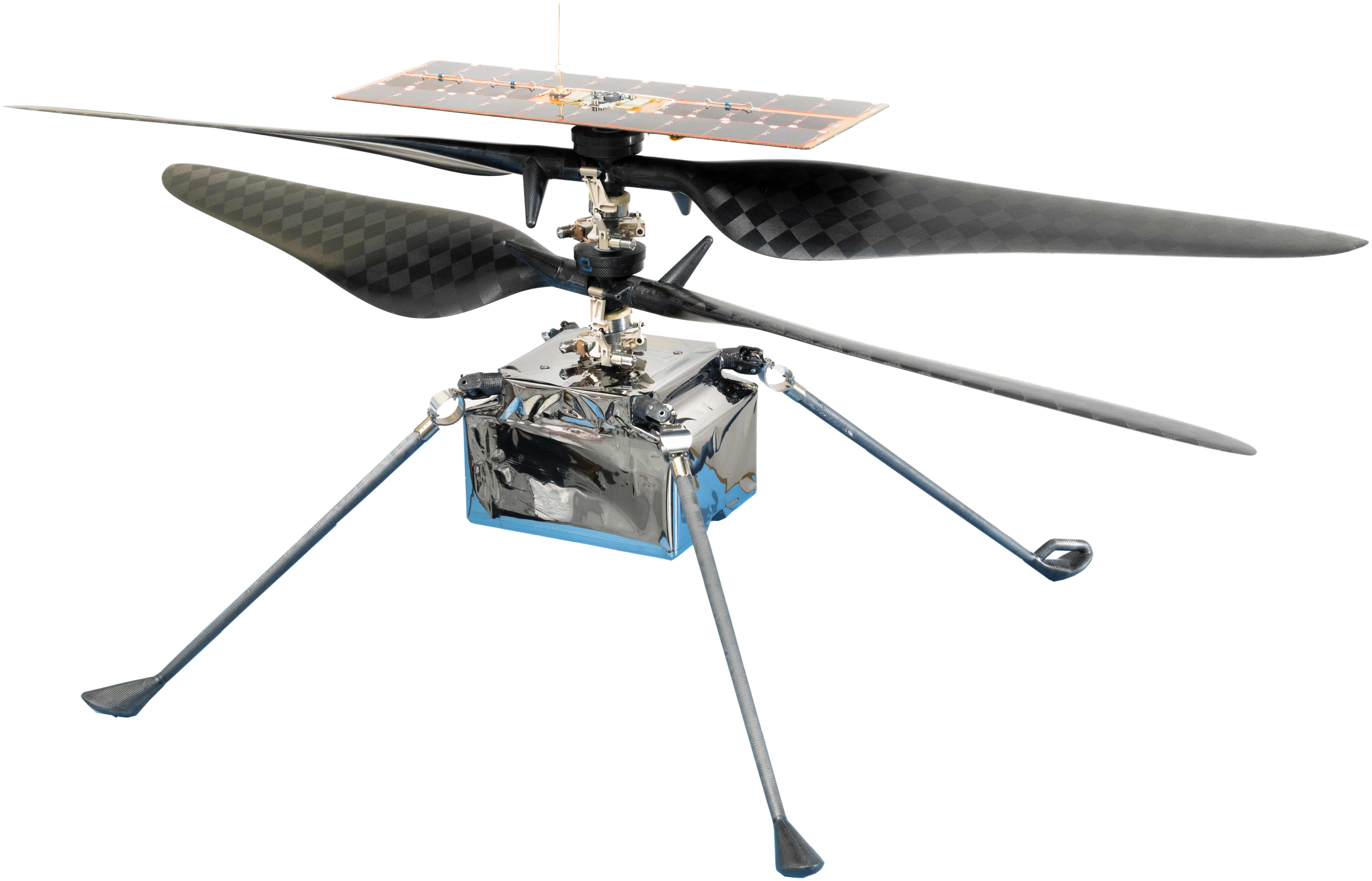 PIA23882: NASA's Ingenuity Mars Helicopter This image shows the flight model of NASA's Ingenuity Mars Helicopter. The flight model of NASA's Ingenuity Mars Helicopter. For more information about the mission, go to